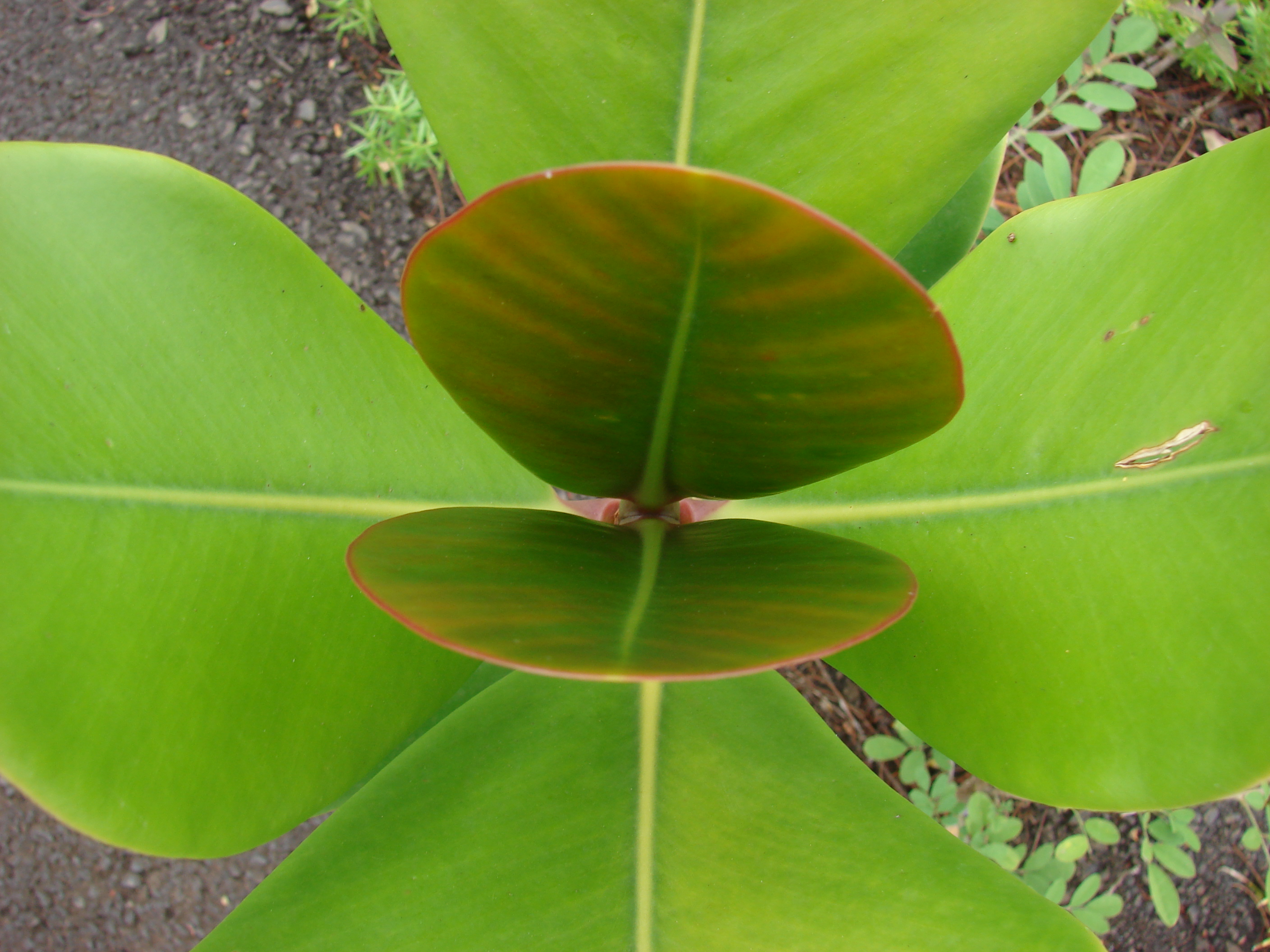 Clusia rosea (Autograph tree) Bicolored leaves at Enchanting Floral Gardens of Kula, Maui, Hawaii. April 30, 2009 #090430-6994 Image Use Policy Also known as Clusia major.